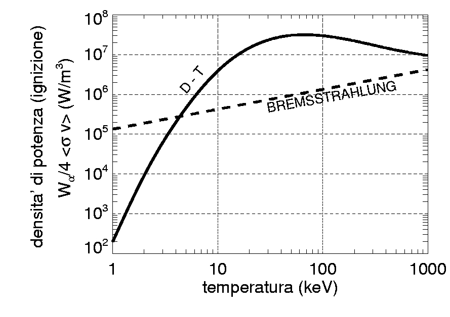 Logarithmic plot, as a function of temperature (in keV), of the power density released by a Deuterium-Tritium reaction, with particle density of 5×10²° particles/m³. It is assumed that the D-T mixture is at ignition conditions (see Glasstone-Lovberg, "Controlled Thermonuclear Reactions", Van Nostrand, New York (1960), p.35). Data for the cross section ‹σv› are taken from NRL plasma formulary (2006 revision), p.44